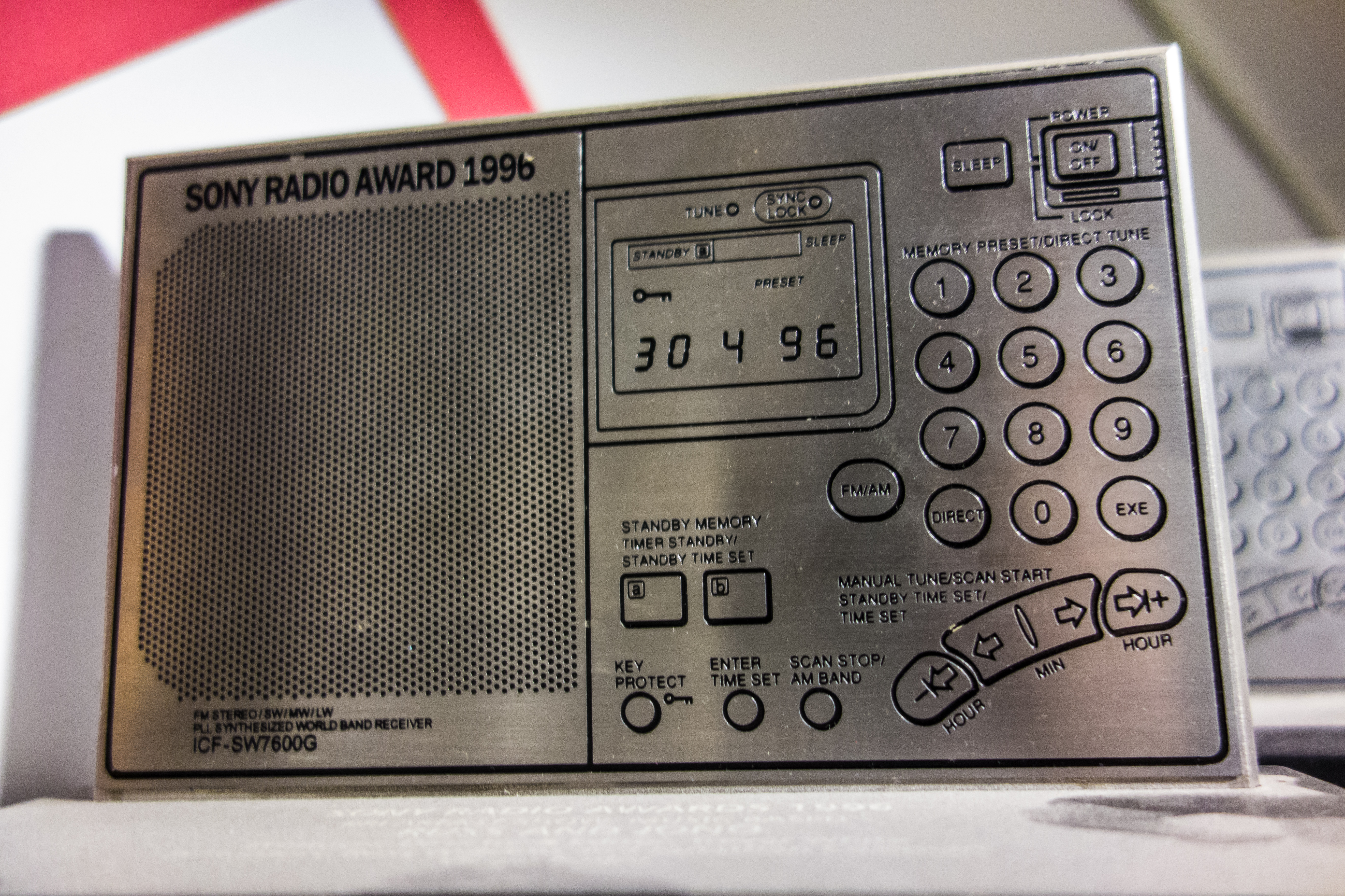 This is an example of a Sony Radio Award. This one was presented to Virgin Radio in 1996.